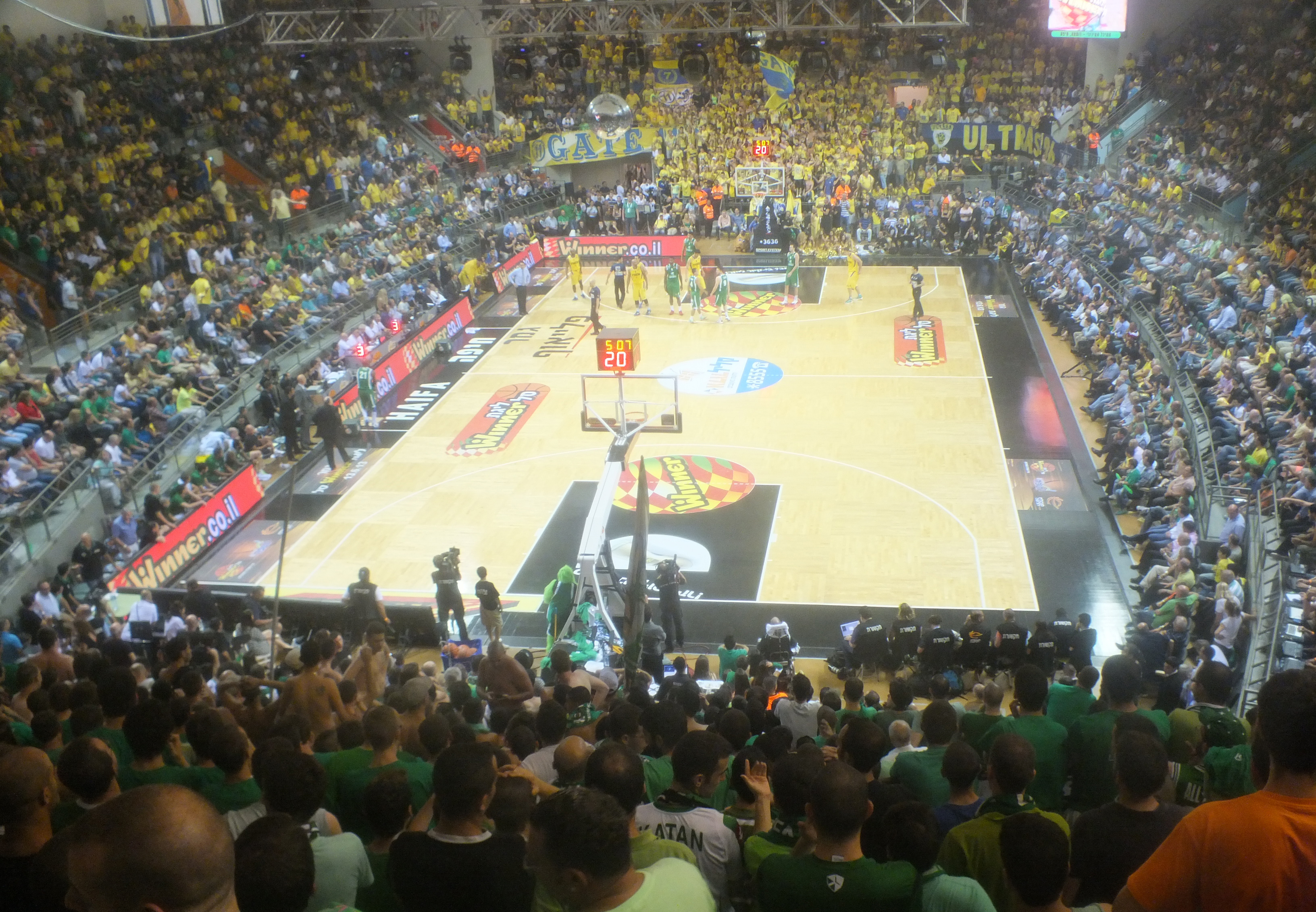 Yellow galleries at Romema, in the critical minutes of a game against the Green locals.